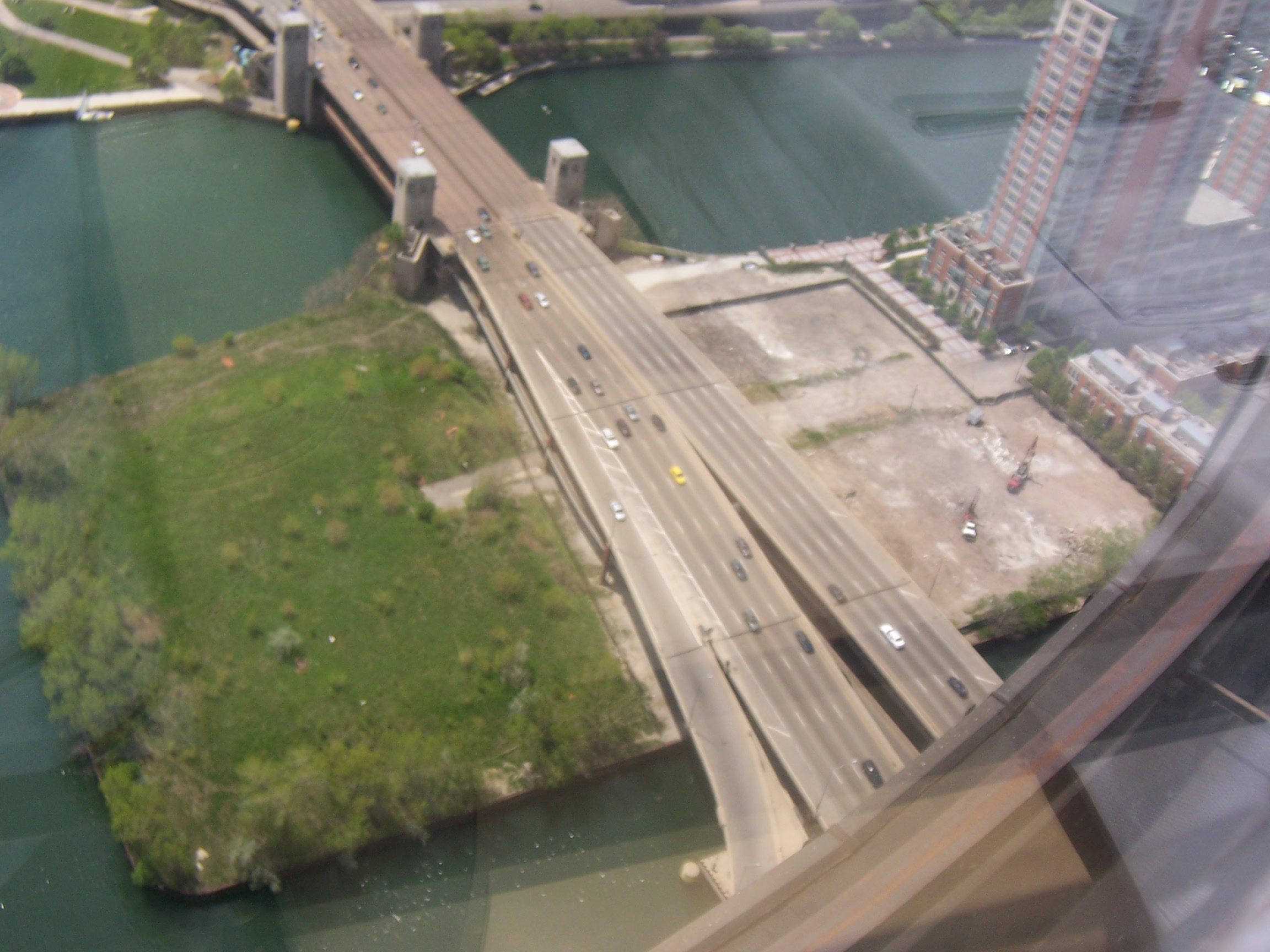 I took this photo. Related images Image:DuSablePark1.jpg